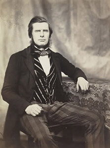 Self-portrait of Roger Fenton